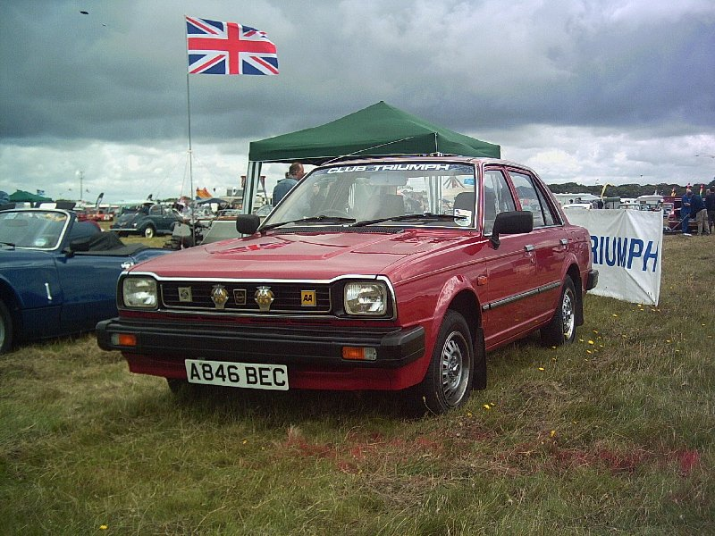 "A photo of one of my cars taken by myself"